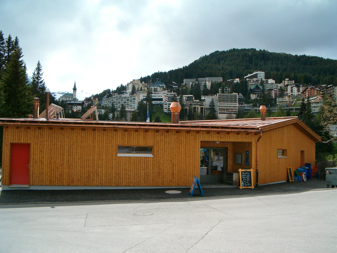 new pavilion at Untersee in Arosa